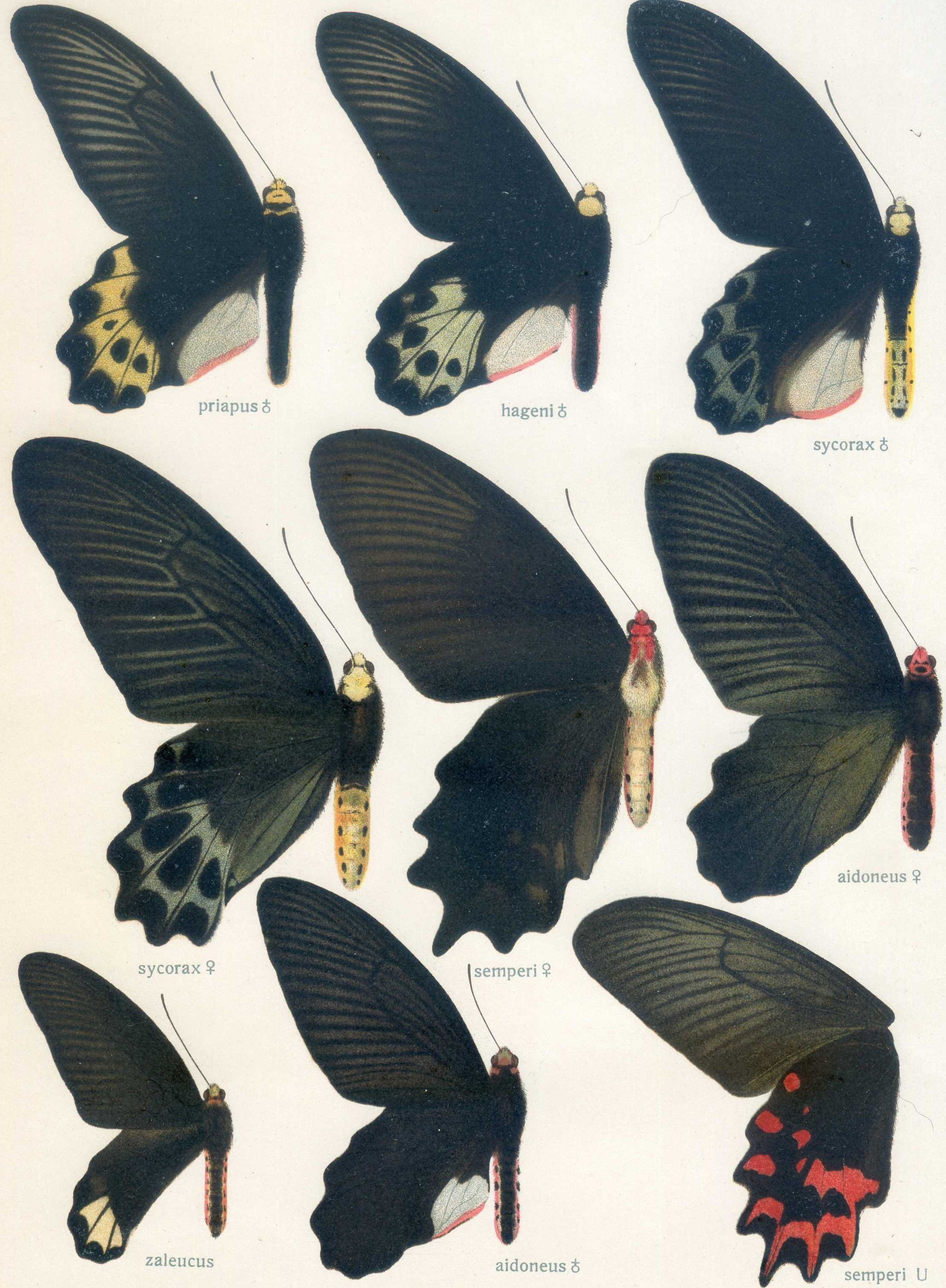 a.1., a.2.: Priapus Batwings, males, upperwings b. Papilio sycorax Gr.-Sm. = Atrophaneura sycorax sycorax (Grose-Smith, 1885), ♀, upperwing Papilio semperi Fldr. f. semperi Fldr. = Atrophaneura semperi semperi (C. & R. Felder, 1861), ♀, upperwing Papilio aidoneus Dbl. = Atrophaneura aidoneus (Doubleday, 1845), ♀, upperwing